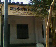 Alokdia High School in Tangail (School Code : 4583)